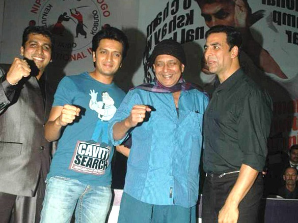 Mithun Chakraborty, Akshay Kumar, Riteish Deskmukh at a Karate event